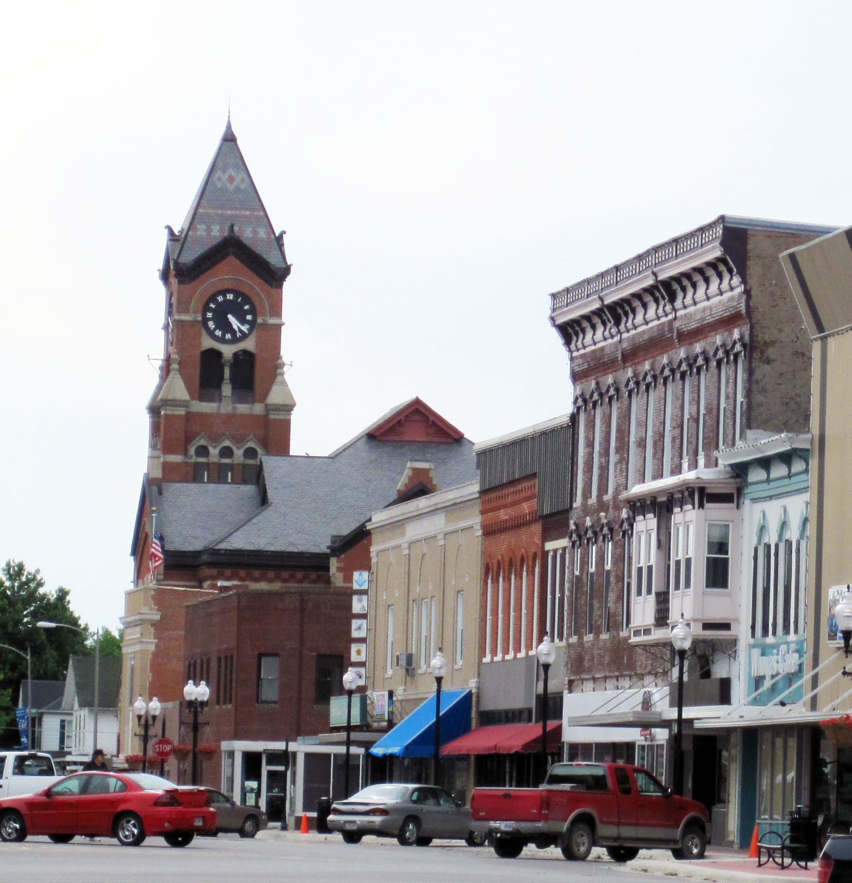 Downtown Washington Bill Whittaker (talk) 12:39, 22 June 2009 (UTC)